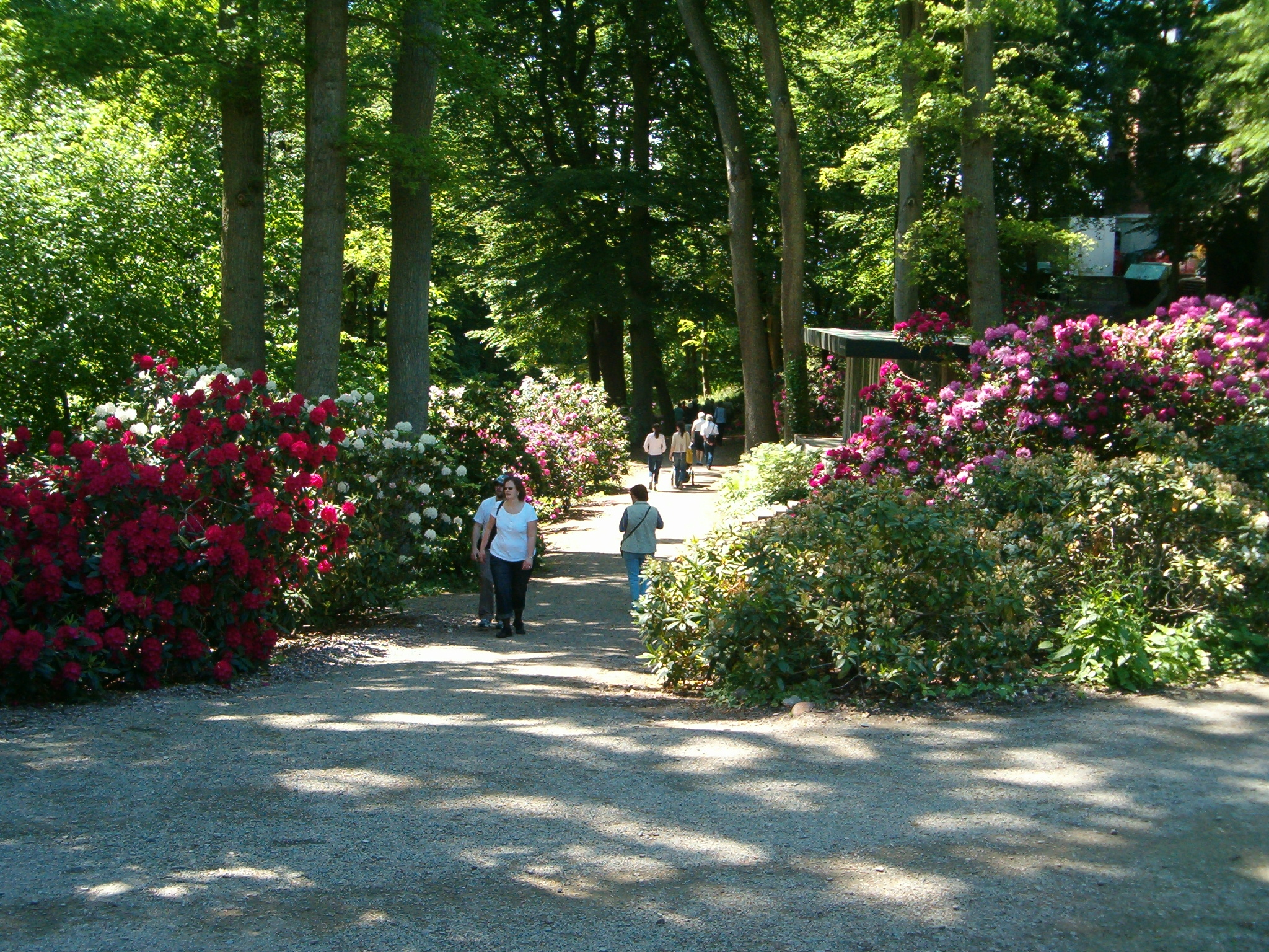 Rhododendron-trees in full bloom at Sofiero castle in Helsingborg, Sweden